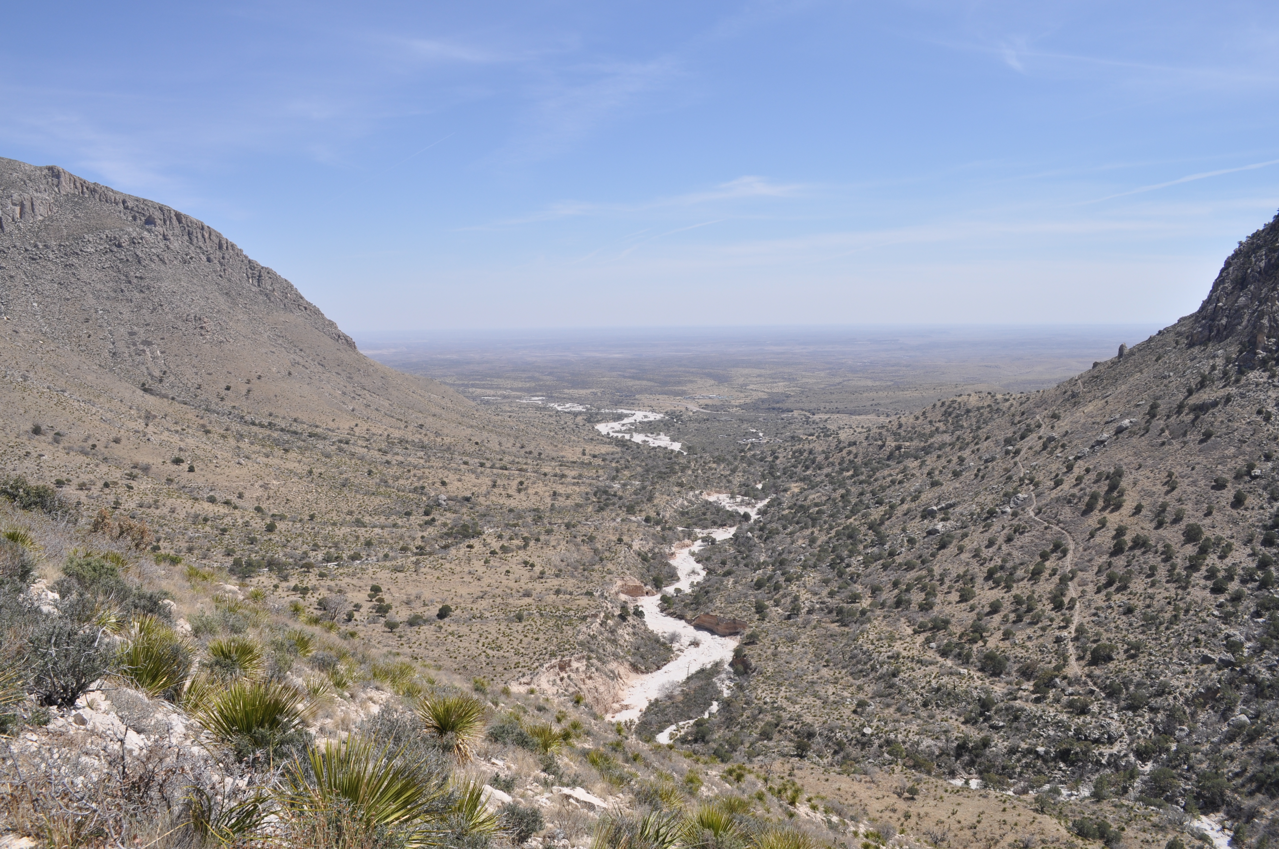 Pine Springs Canyon viewed from the Tejas Trail in Guadalupe Mountains National Park, Texas.